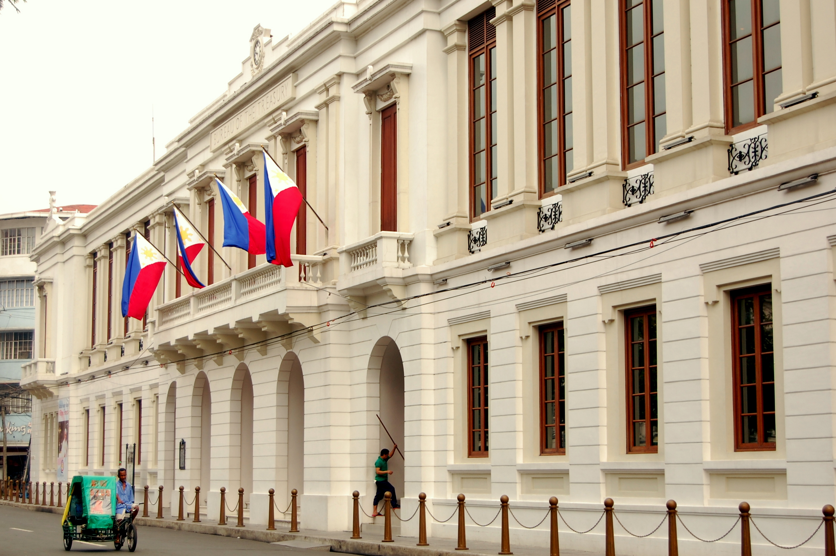 Facade of Ayuntamiento de Manila